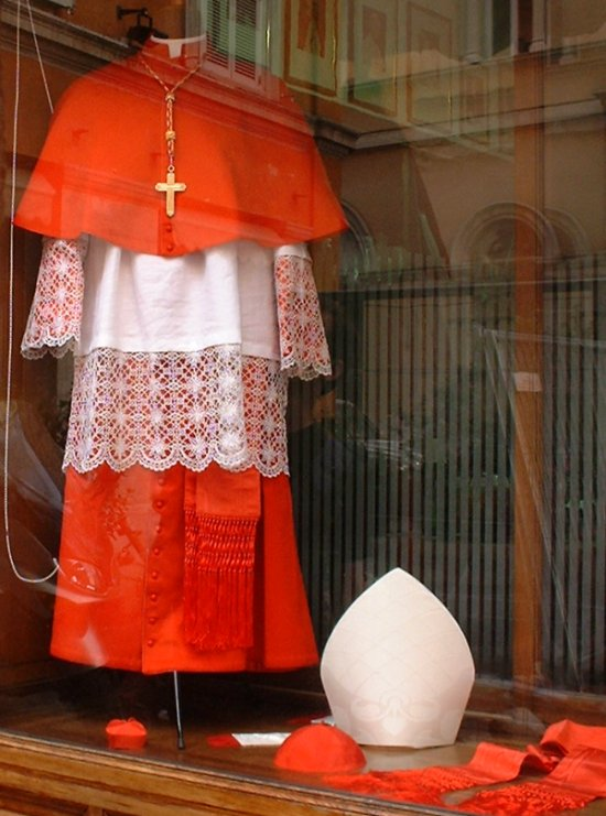 Vestments of a cardinal: red cassock, rochet trimmed with lace, red mozetta,and pectoral cross. At the dummy's feet, from left to right: zucchetto, mitre (mitra simplex) and fascia. Window display at Gammarelli's, via Santa Chiara, Rome